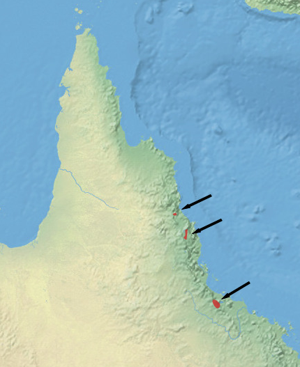 The Distribution of the Northern Bettong